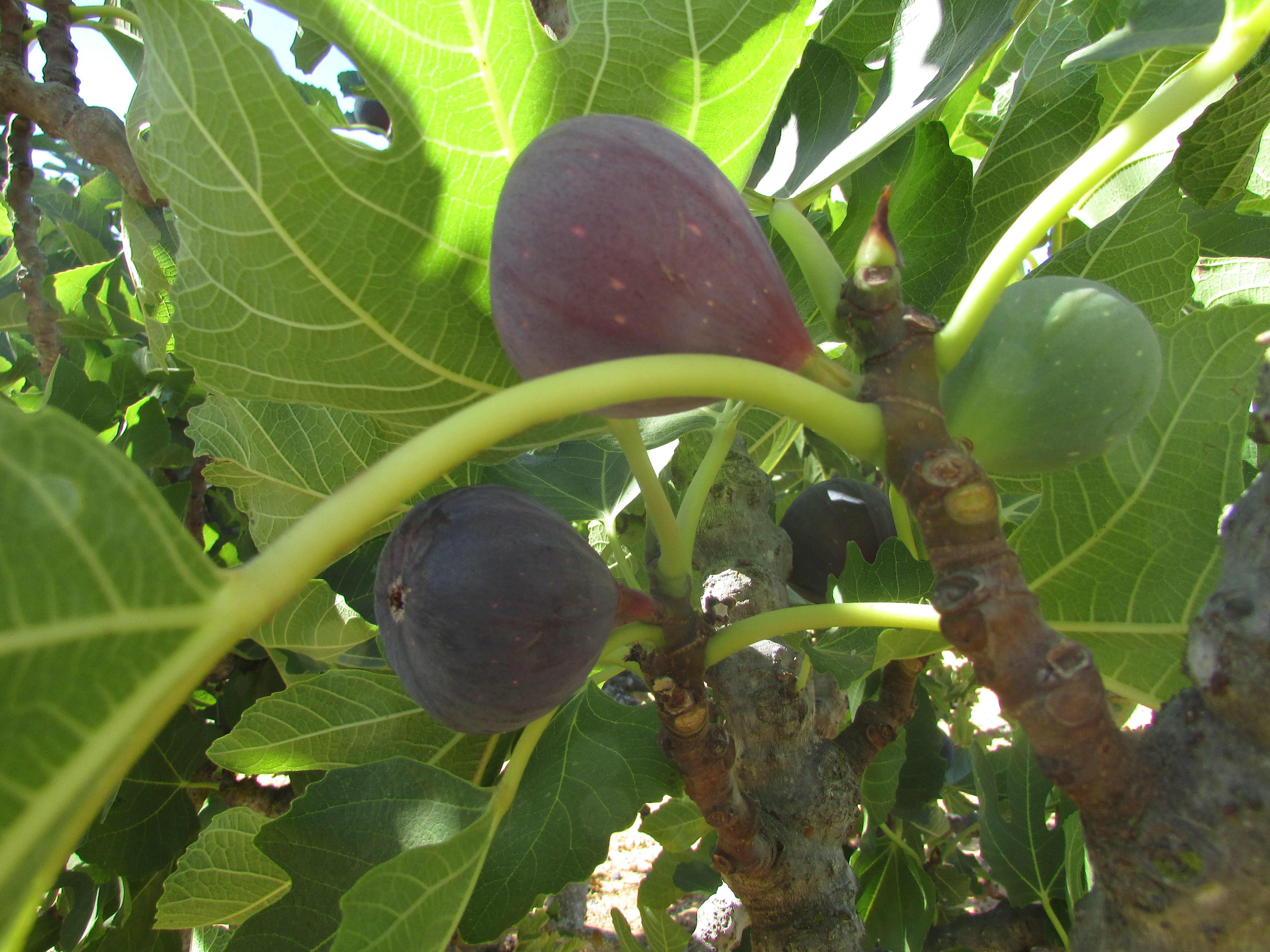 A example of the ripe fruit of a fig tree out in the countryside in the neighbourhood of Pinhal within the city of Albufeira, Algarve, Portugal.